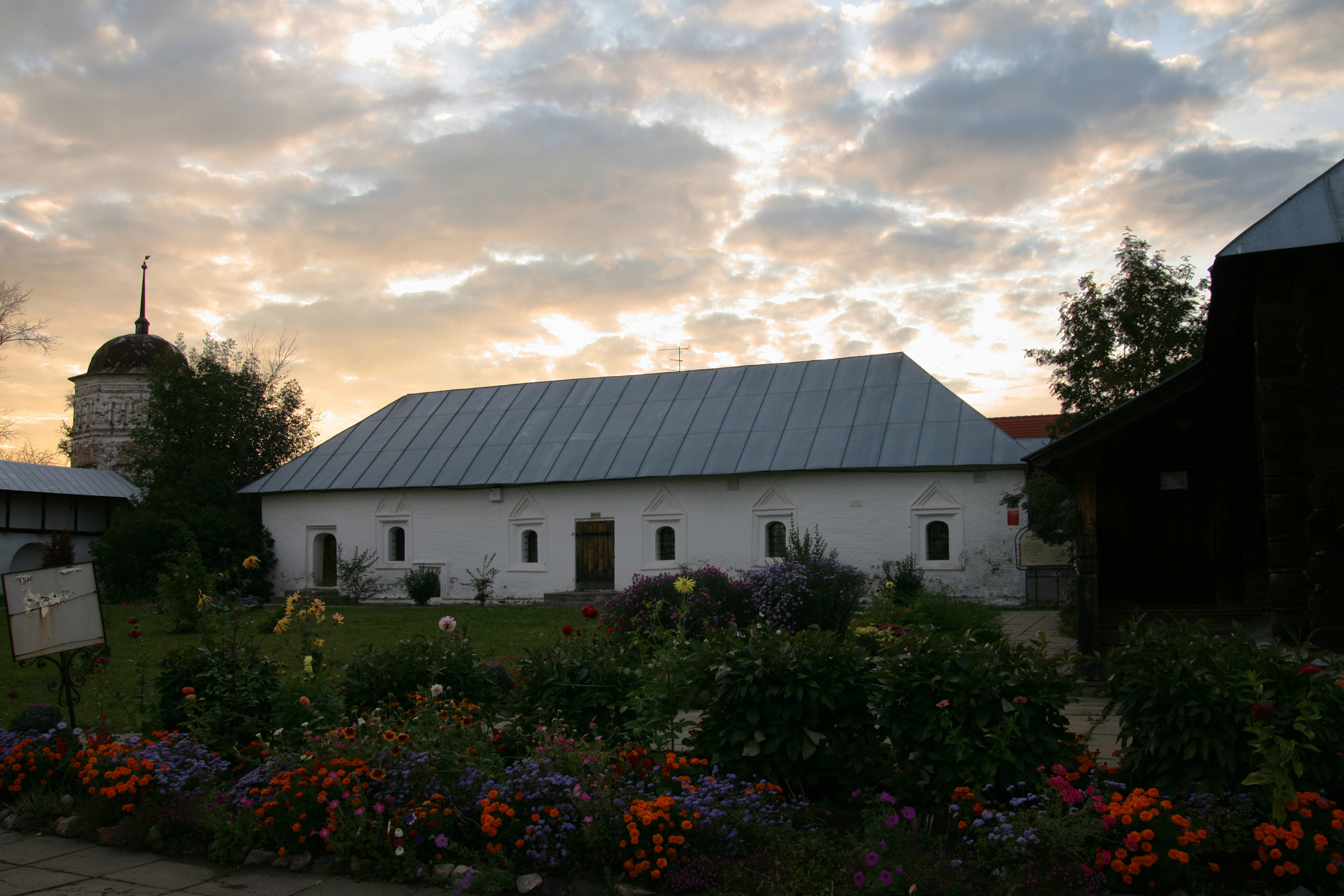 Mandative Izba at Pokrovsky Monastery in Suzdal, XVIII